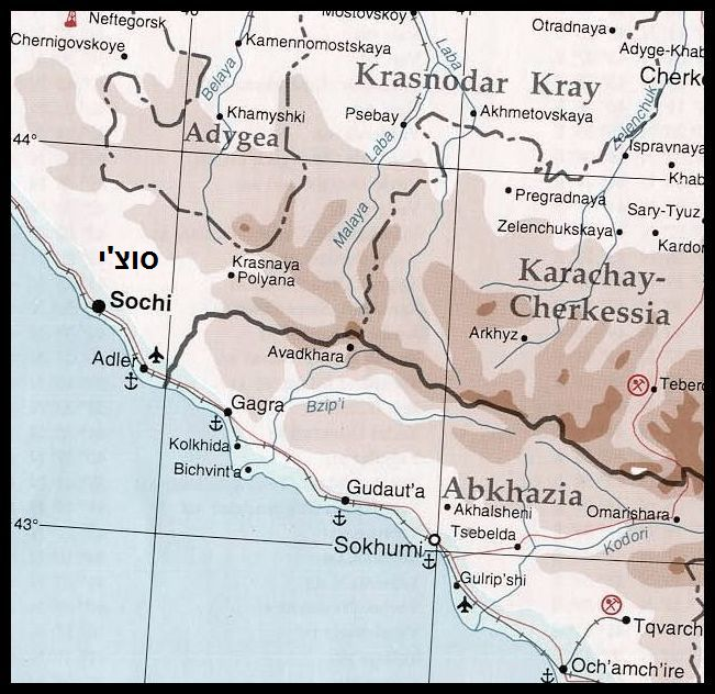 Map of the North Caucasus region, in 1994. Includes northwest Georgia (Abkhazia) and southwest Russia (Krasnodar Krai and Karachay-Cherkessia).